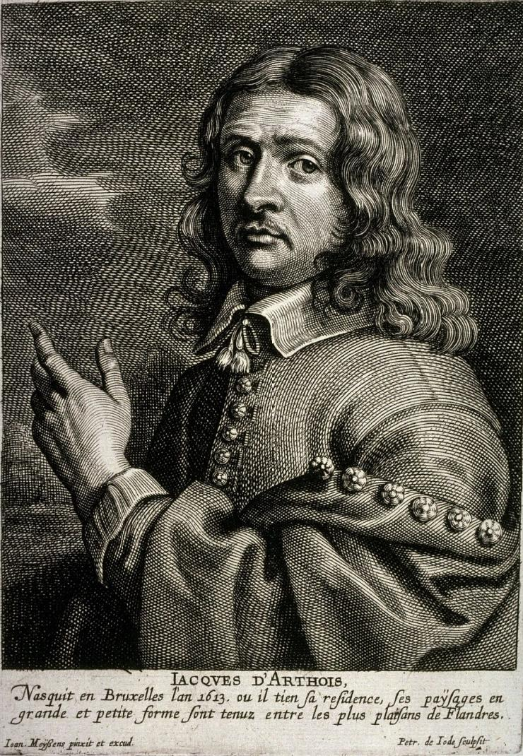 Engraving of Jacques d'Arthois (1613-1686), (after a portrait by Johannes Meyssens).